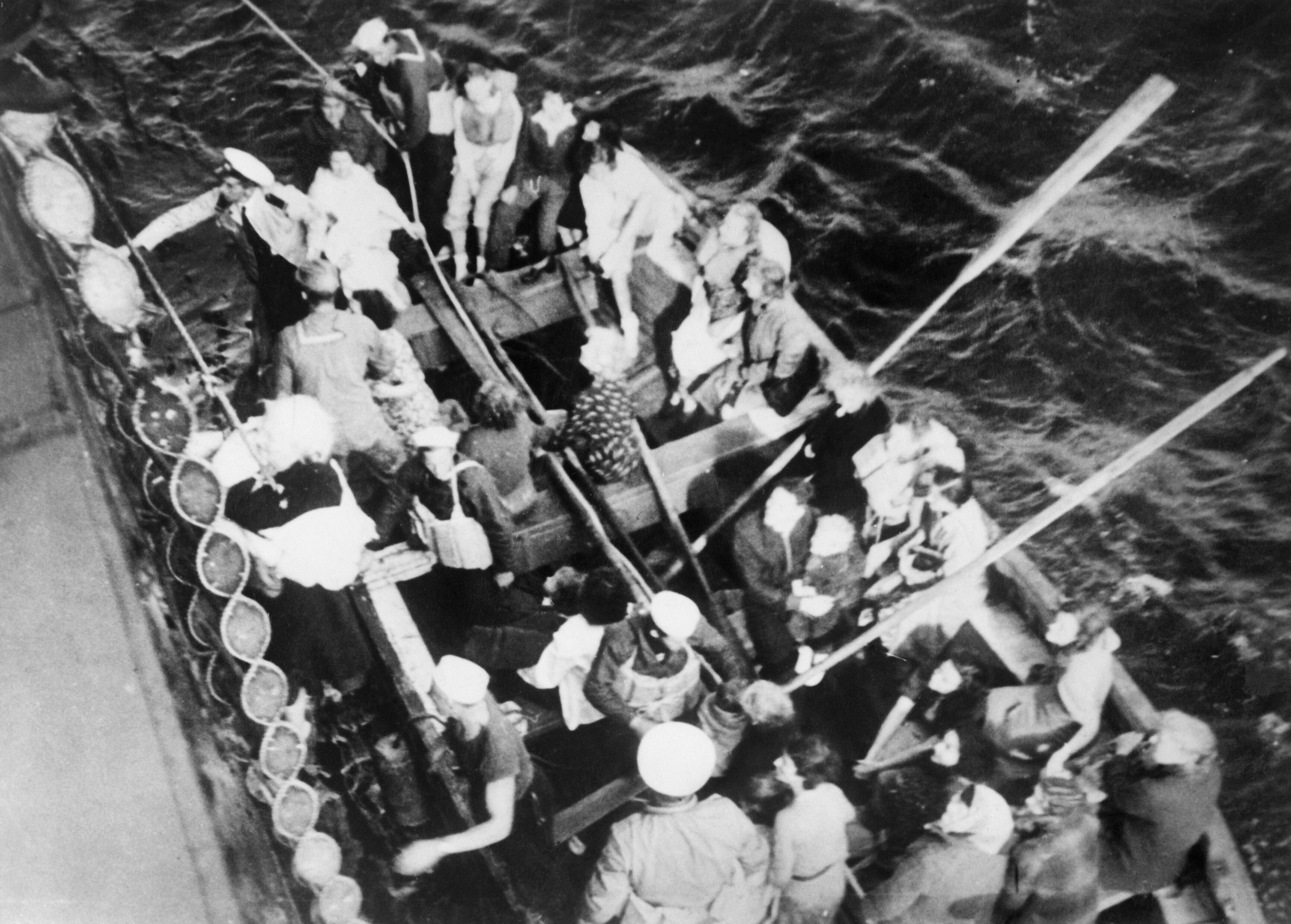 Sinking of SS Athenia, September 1939 An elderly woman is hoisted aboard the American cargo steamship City of Flint after spending the night in a lifeboat. She had been rescued from the passenger liner Athenia which was torpedoed by U-30 on the evening of 3 September 1939 off the north west coast of Ireland and sank the next morning.